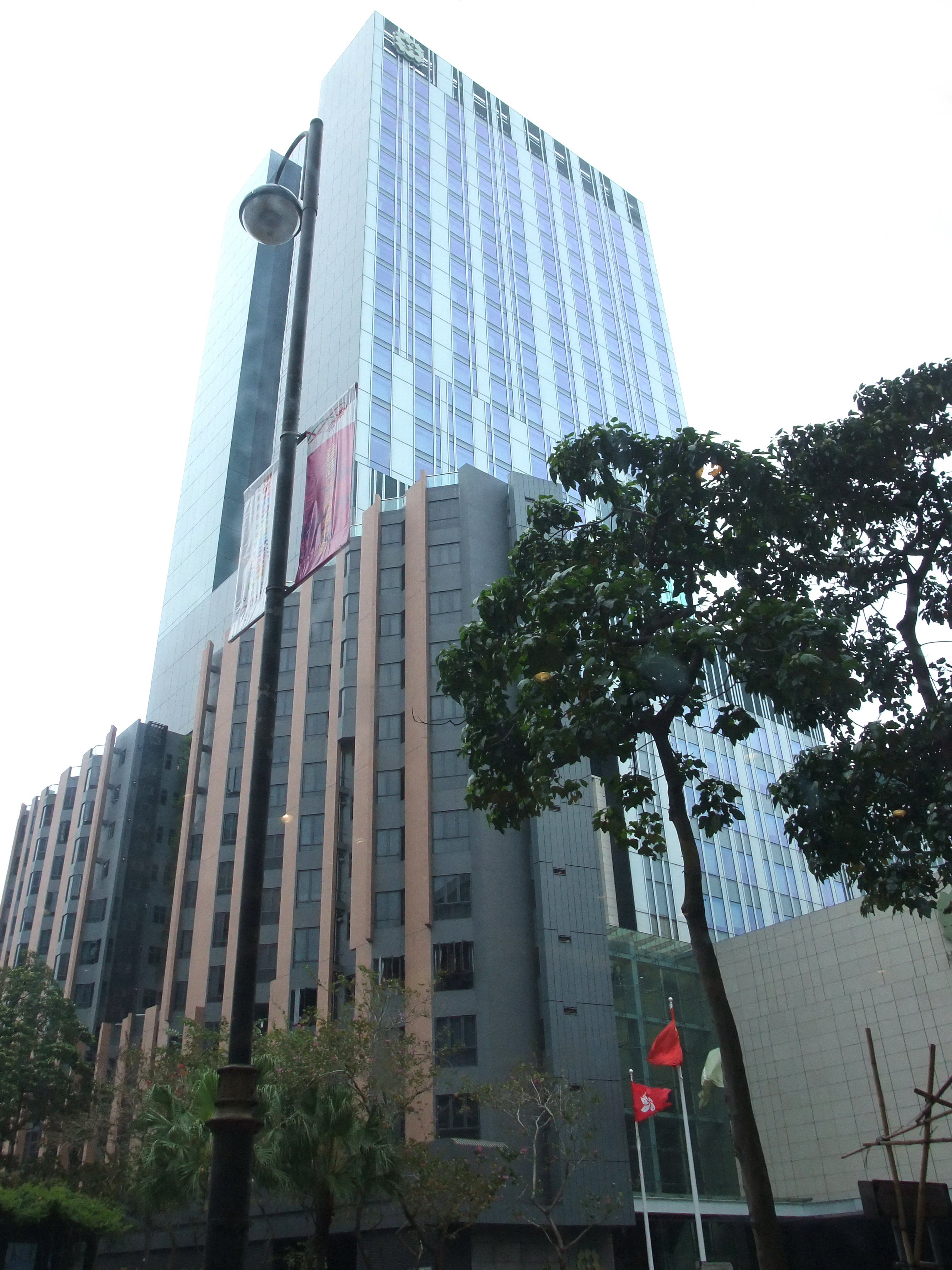 Hotel ICON, Tsim Sha Tsui East, Kowloon, Hong Kong.